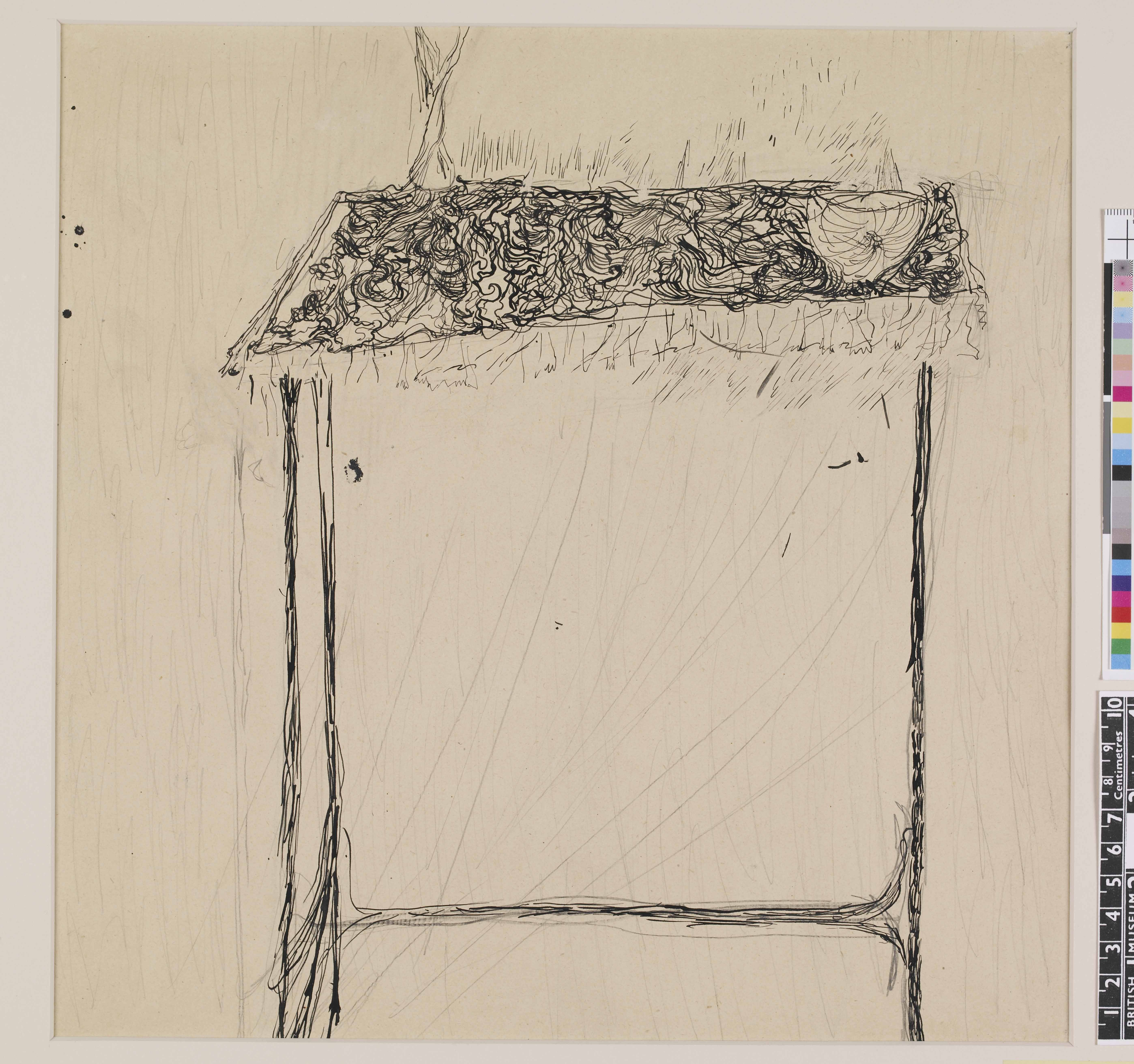 ilka Gedő Table 6,1949, black ink on tan lightweight paper, 324 x 324 mm, British Museum